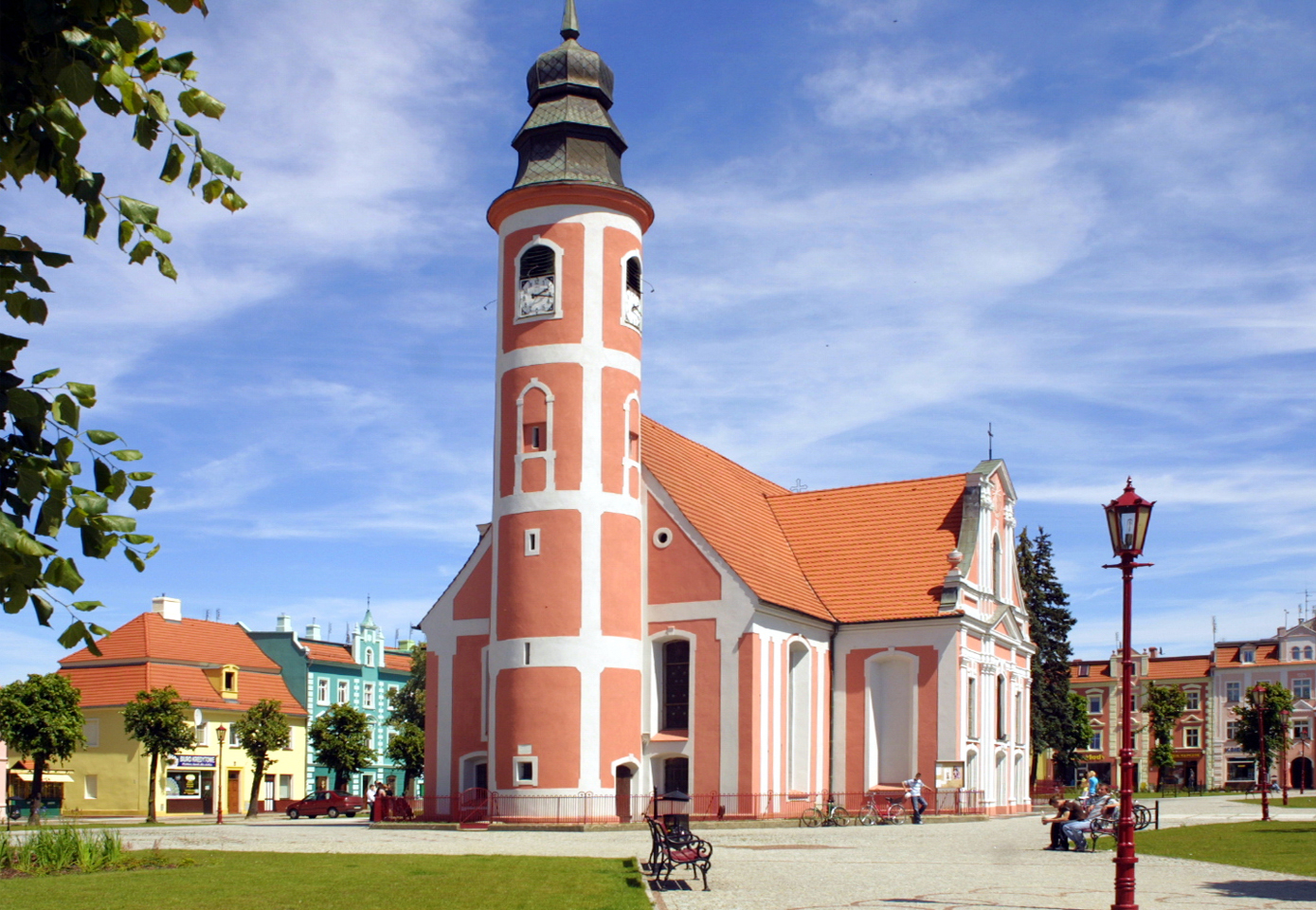 St Joseph's church, Chocianów, Poland. Rebuilt in the 2nd half of the 16th century, from a townhall into an evangelical church. Rebuilt in 1866.